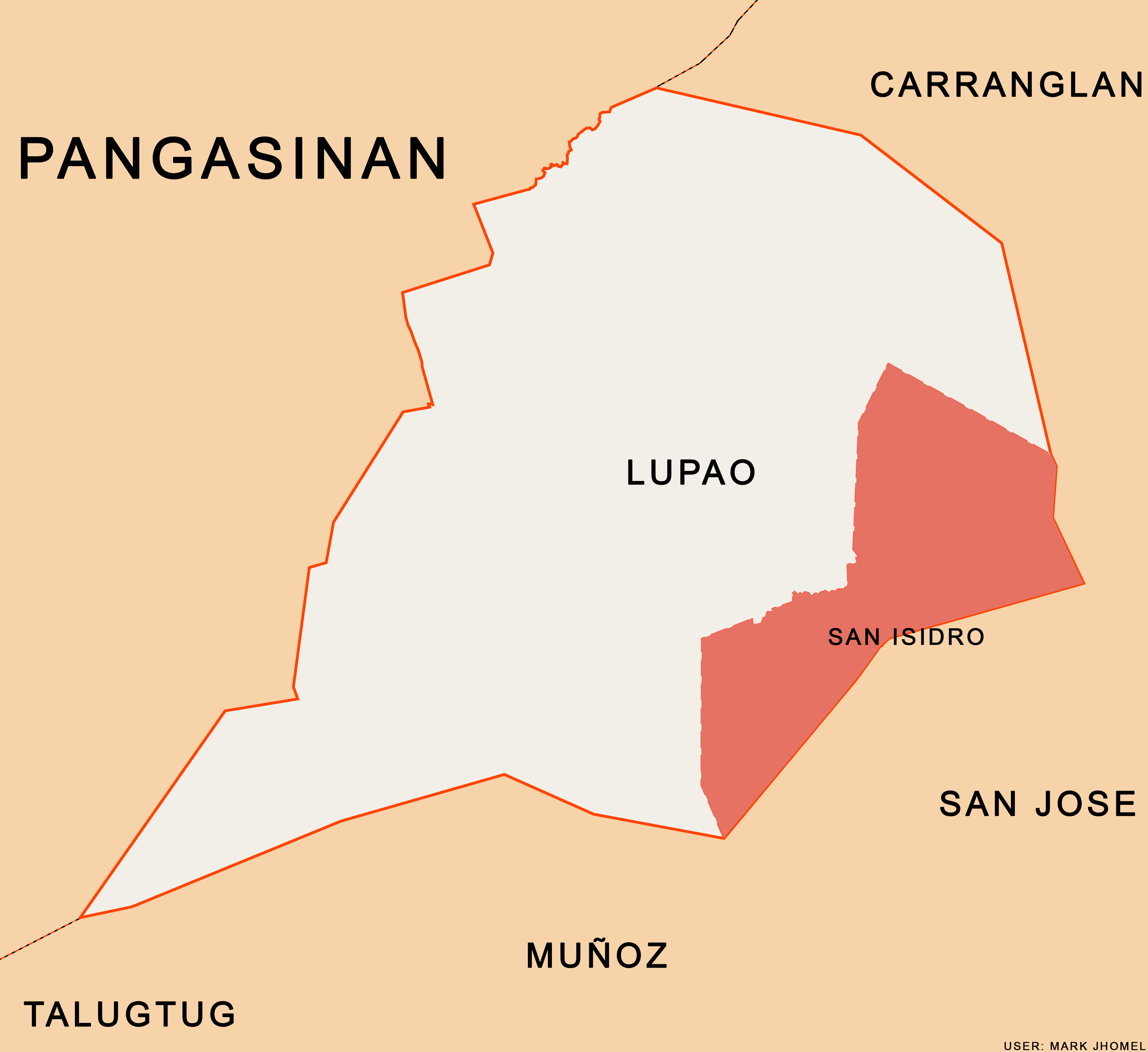 This map shows the map of Barangay San Isidro, Lupao, Nueva Ecija in the Philippines.